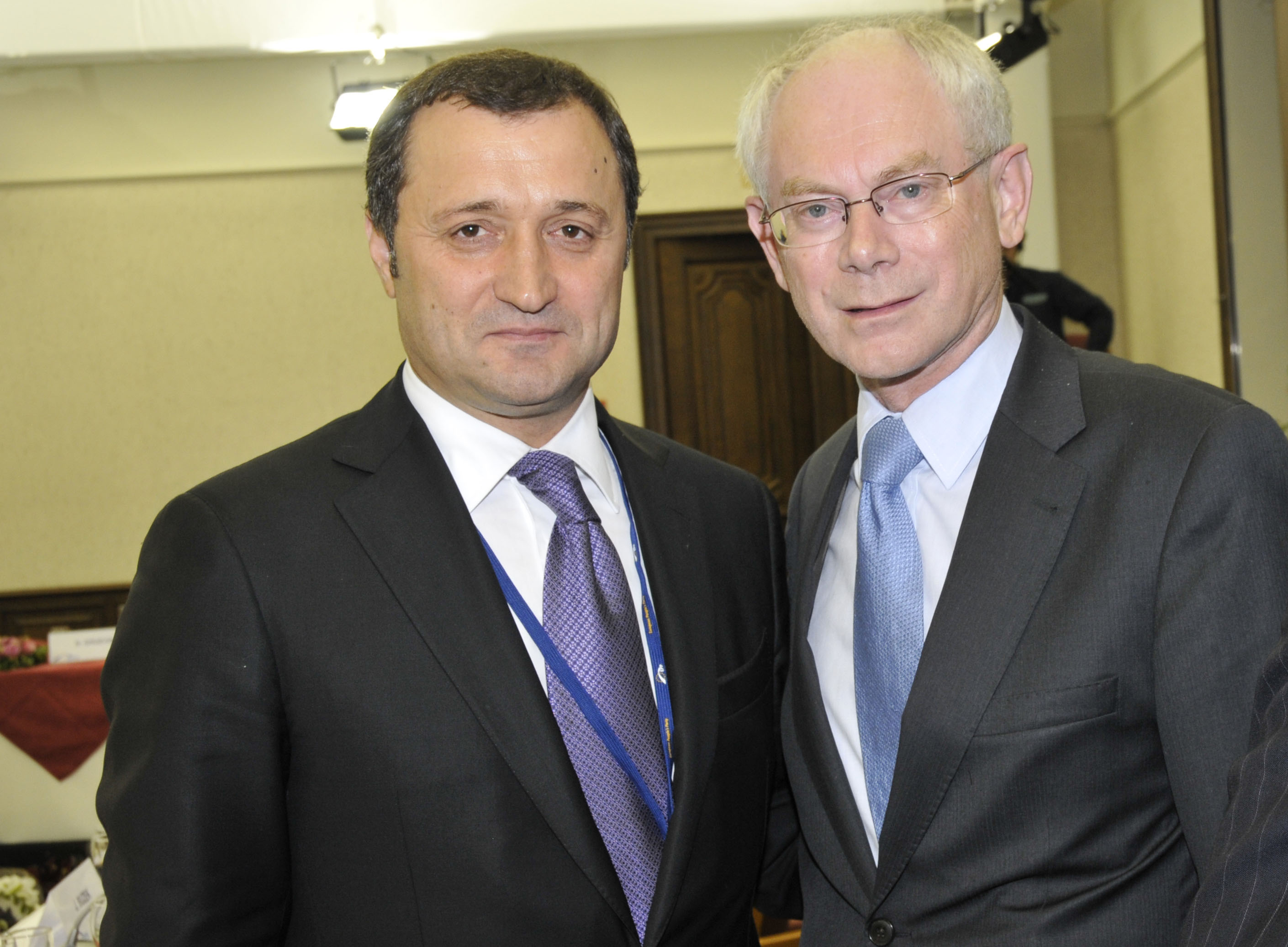 Vlad Filat and Herman Van Rompuy at EPP Summit September 2010